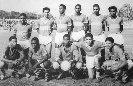 SV Robin 1976